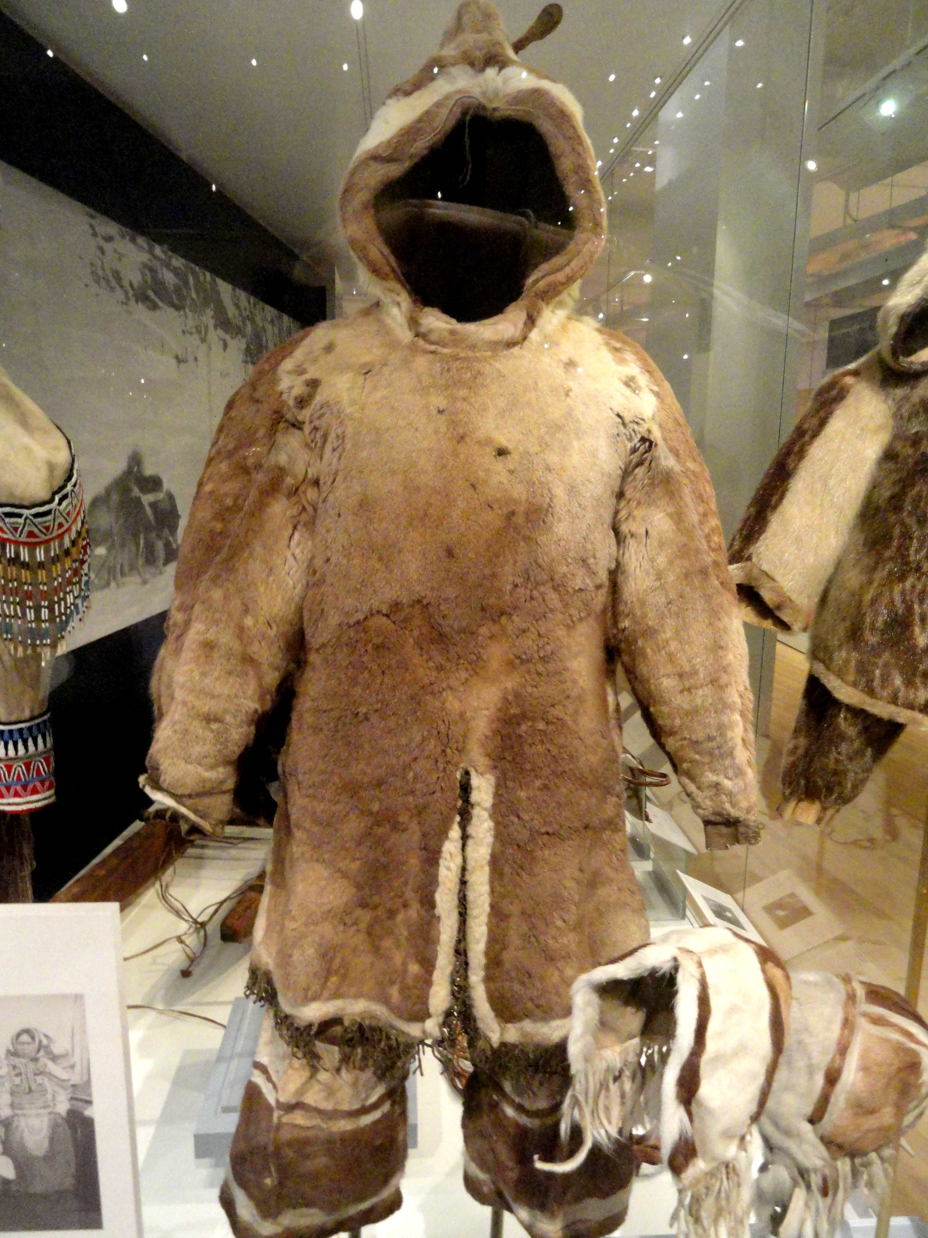 Exhibit in the Royal Ontario Museum, Toronto, Ontario, Canada. Photography was permitted in the museum. I took this photograph and release it into the public domain.